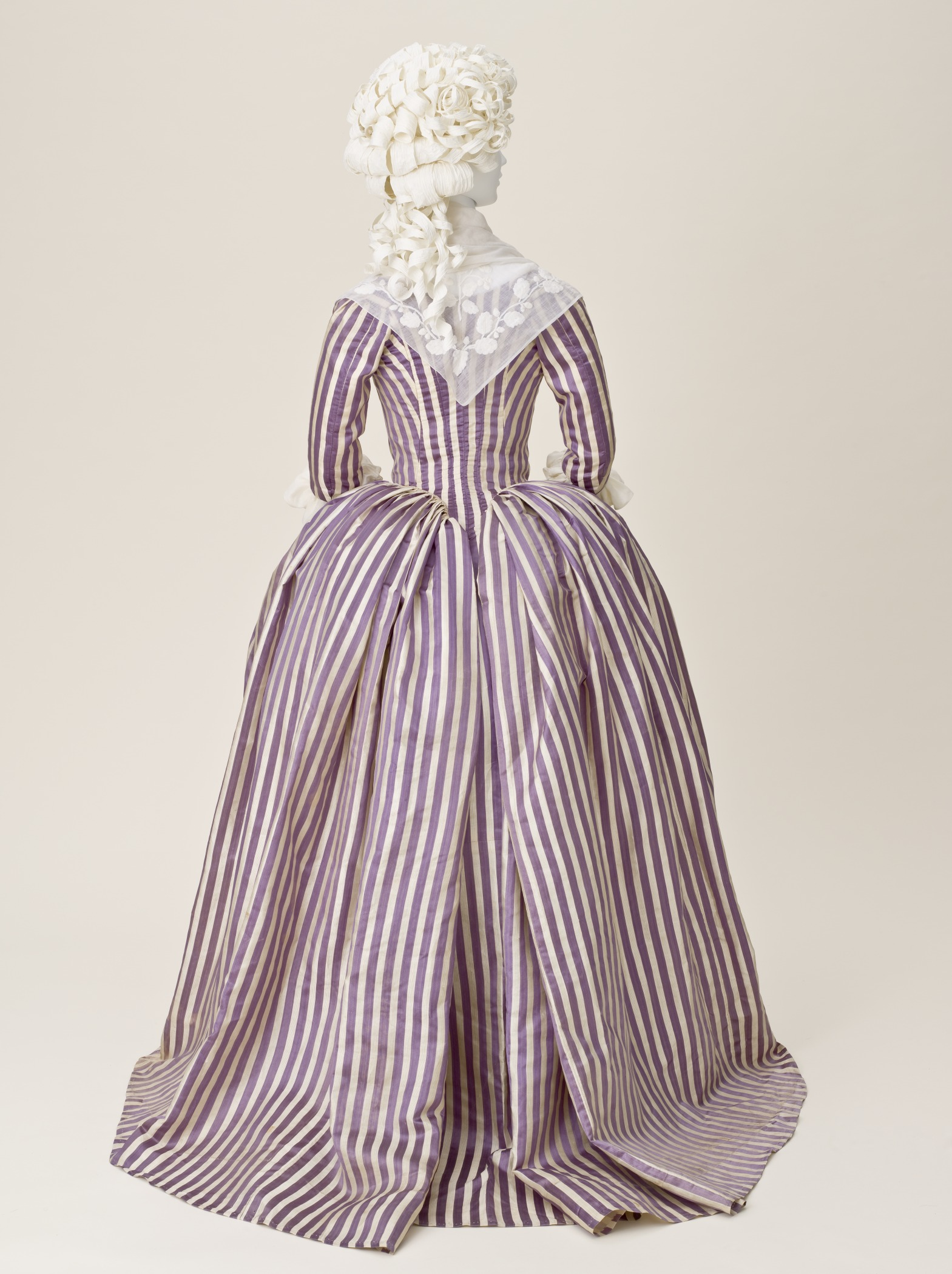 France, 1785-1790 Costumes; principal attire (entire body) Silk twill and silk plain-weave stripes Center back length: 62 in. (157.48 cm) Purchased with funds provided by Suzanne A. Saperstein and Michael and Ellen Michelson, with additional funding from the Costume Council, the Edgerton Foundation, Gail and Gerald Oppenheimer, Maureen H. Shapiro, Grace Tsao, and Lenore and Richard Wayne (M.2007.211.931) Costume and Textiles